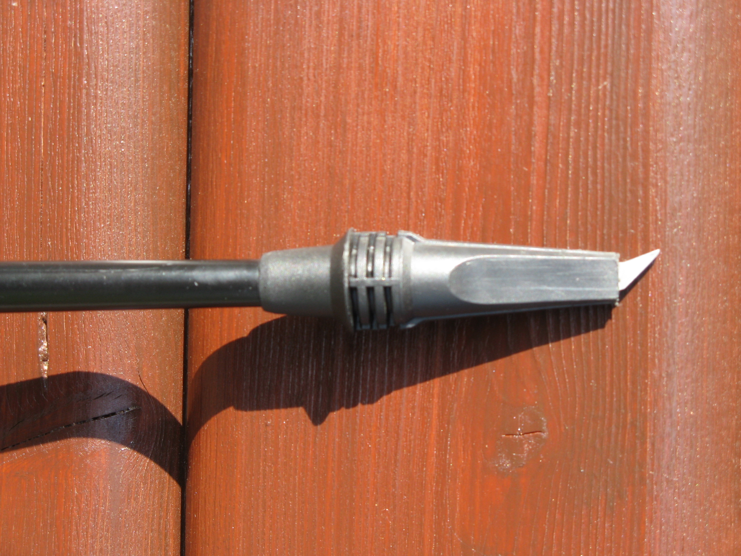 Spike on ski stick for roller skiing